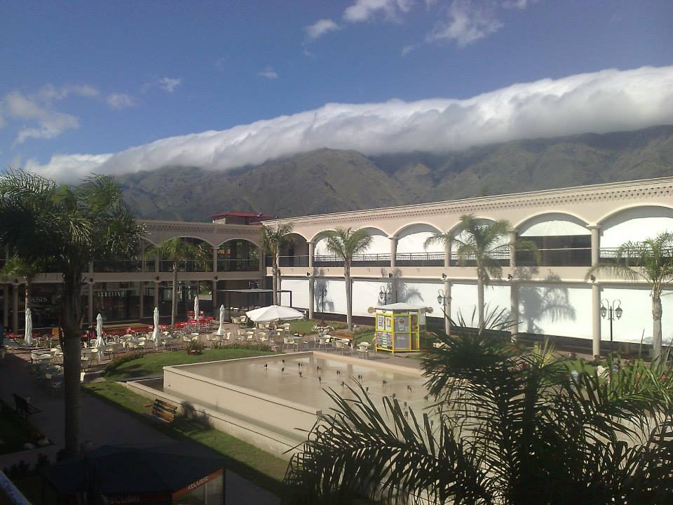 Del Sol shopping centre, Merlo, San Luis province.